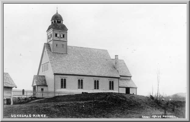 Uskedalen kirke